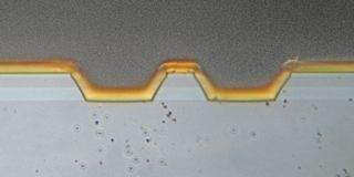 Picture of quantum cascade laser facet with ridge waveguide